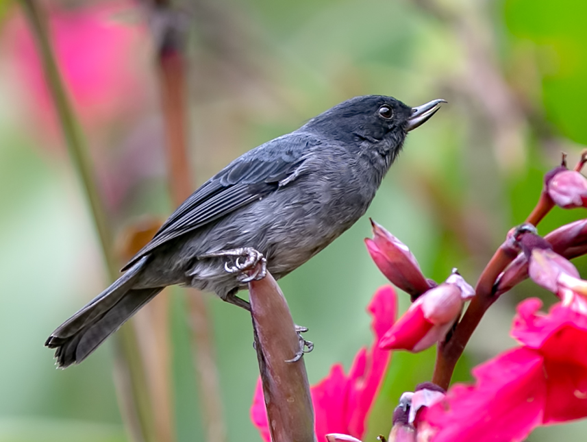 Diglossa plumbea, male - Central Highlands, Costa Rica, 31/01/2020